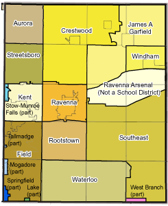 Map of school districts in Portage County with township and municipal boundaries superimposed. Original school district map from state map at the Public Utilities Commission of Ohio website [1] Portage County school district names are outlined in white; district names in all black type are portions of districts from neighboring counties which overflow into Portage County.